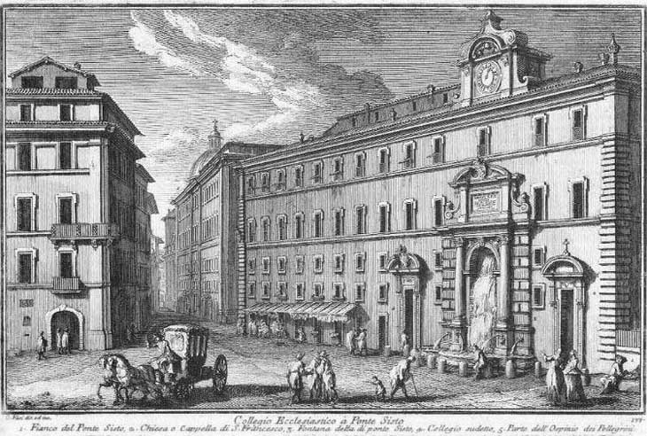 1) Part of Ponte Sisto; 2) Cappella di S. Francesco or S. Francesco ai Mendicanti; 3) Fontana di Ponte Sisto; 4) Collegio Ecclesiastico; 5) Dome of SS. Trinità de' Pellegrini.